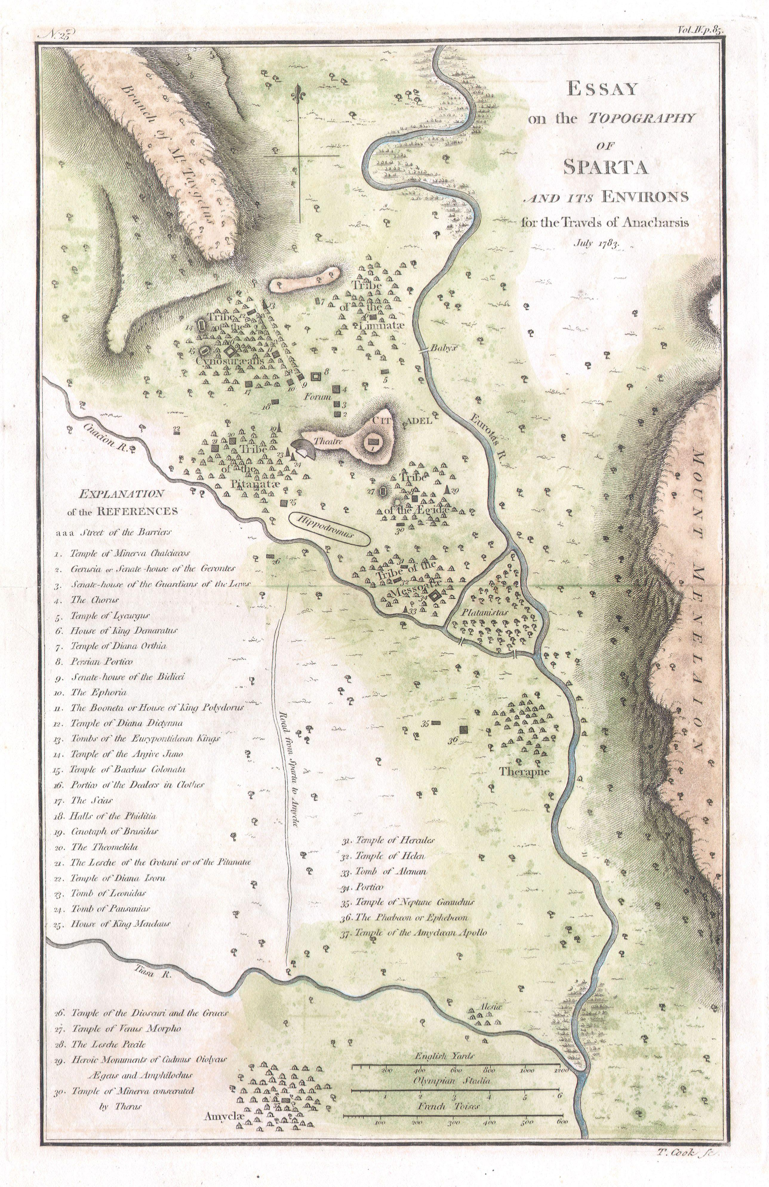 This lovely little map of Sparta, in the west of Ancient Greece, was prepared by M. Barbie de Bocage in 1783 for the “Travels of Anarcharsis”. Follows the earlier D’Anville map. Unlike its rival city Athens, Sparta left very little in terms of archeological ruins so we can only assume that much of this map is conjecture. Nonetheless, it is surprisingly detailed and does indicate important landmarks, including the Theater, the Hippodrome, and the Citadel. Also indicates the relative position of the five Tribes’ camps. M. Barbie de Bocage was a French cartographer and cosmographer in the school of D’Anville. He later became a founder of the Geography Society of Paris.